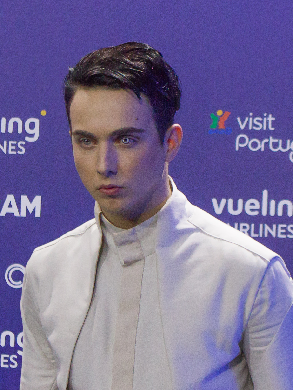 At the 2018 Semi Final 2 qualifiers press conference